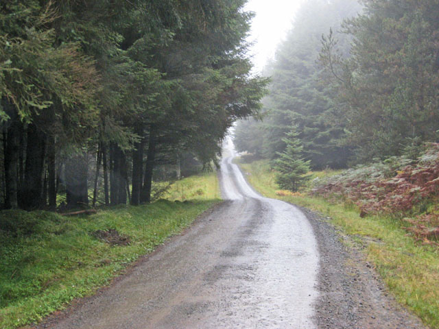 Kielder Forest Drive Kielder Forest Drive is a 19 Km long toll road which crosses the forest and high moorland between North Tynedale and Redesdale .